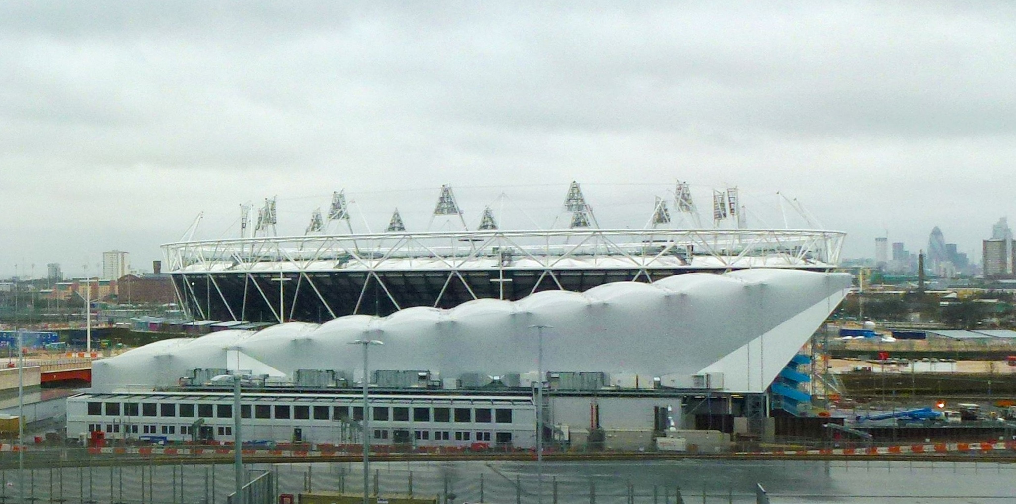 Detail of the Water Polo Arena during construction (4.2012).